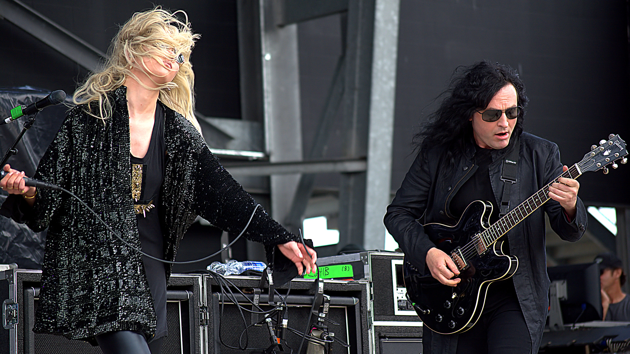 500px provided description: Pretty Reckless live at Rock on the Range 2015 [#rock ,#concert ,#music ,#live ,#band ,#festival ,#ohio ,#columbus ,#concert photography ,#columbus ohio ,#Rock on the Range ,#axstv ,#axsrotr ,#rotr2015 ,#Prett Reckless ,#csnphotograghy]